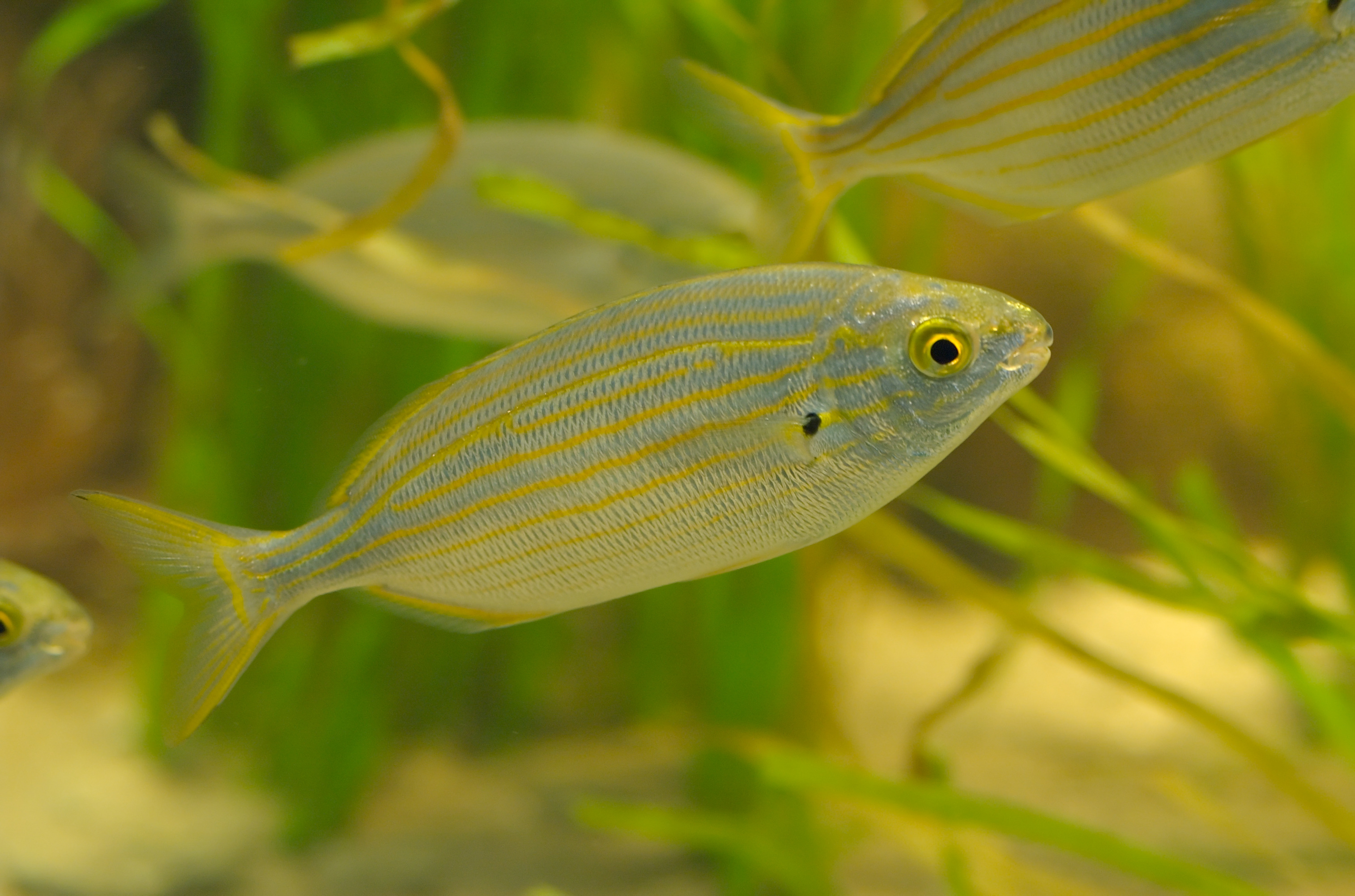 Salema